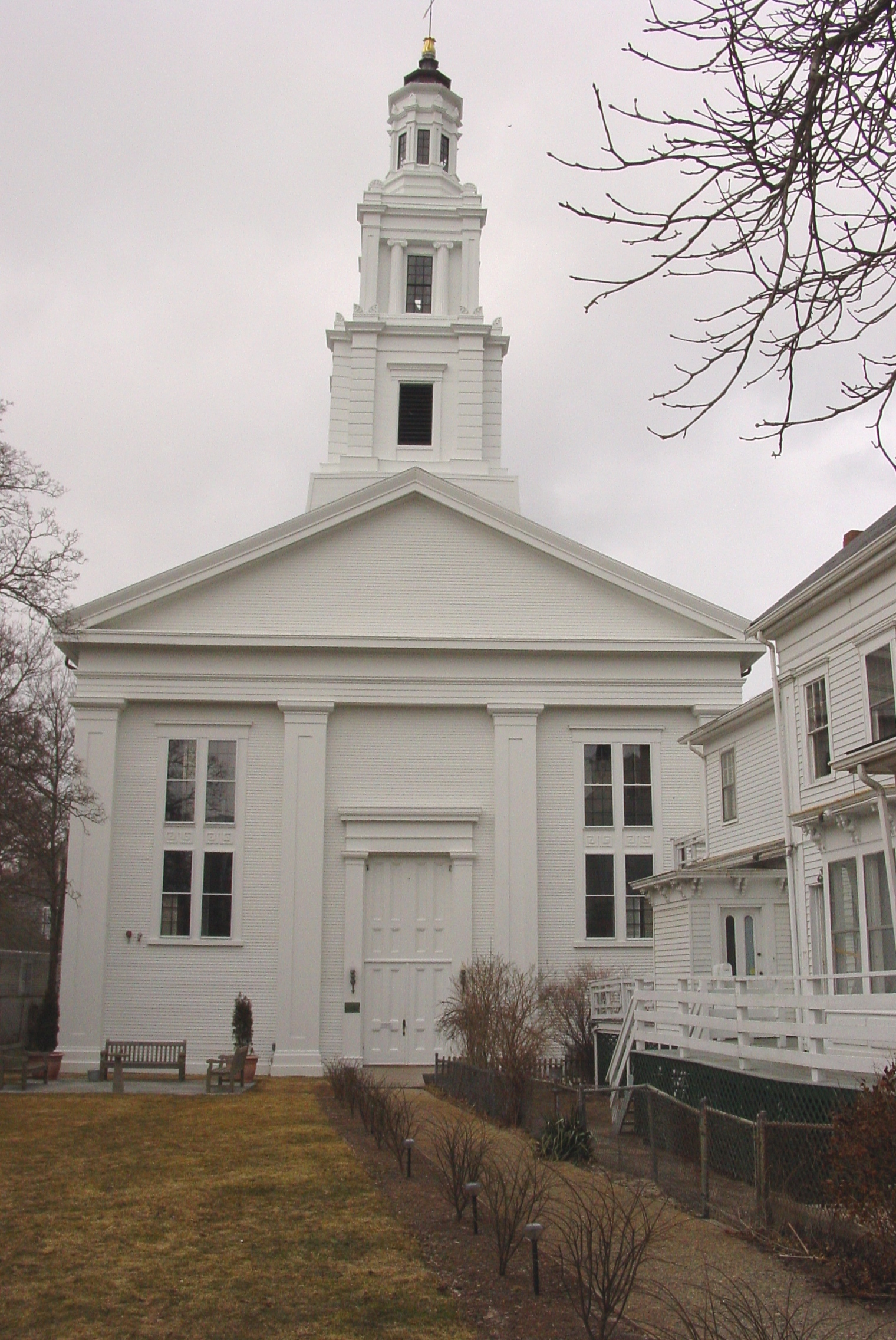 the First Universalist Church in Provincetown today